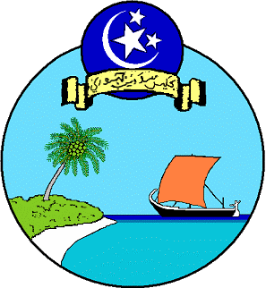 United Suvadive Republic Coat of arms